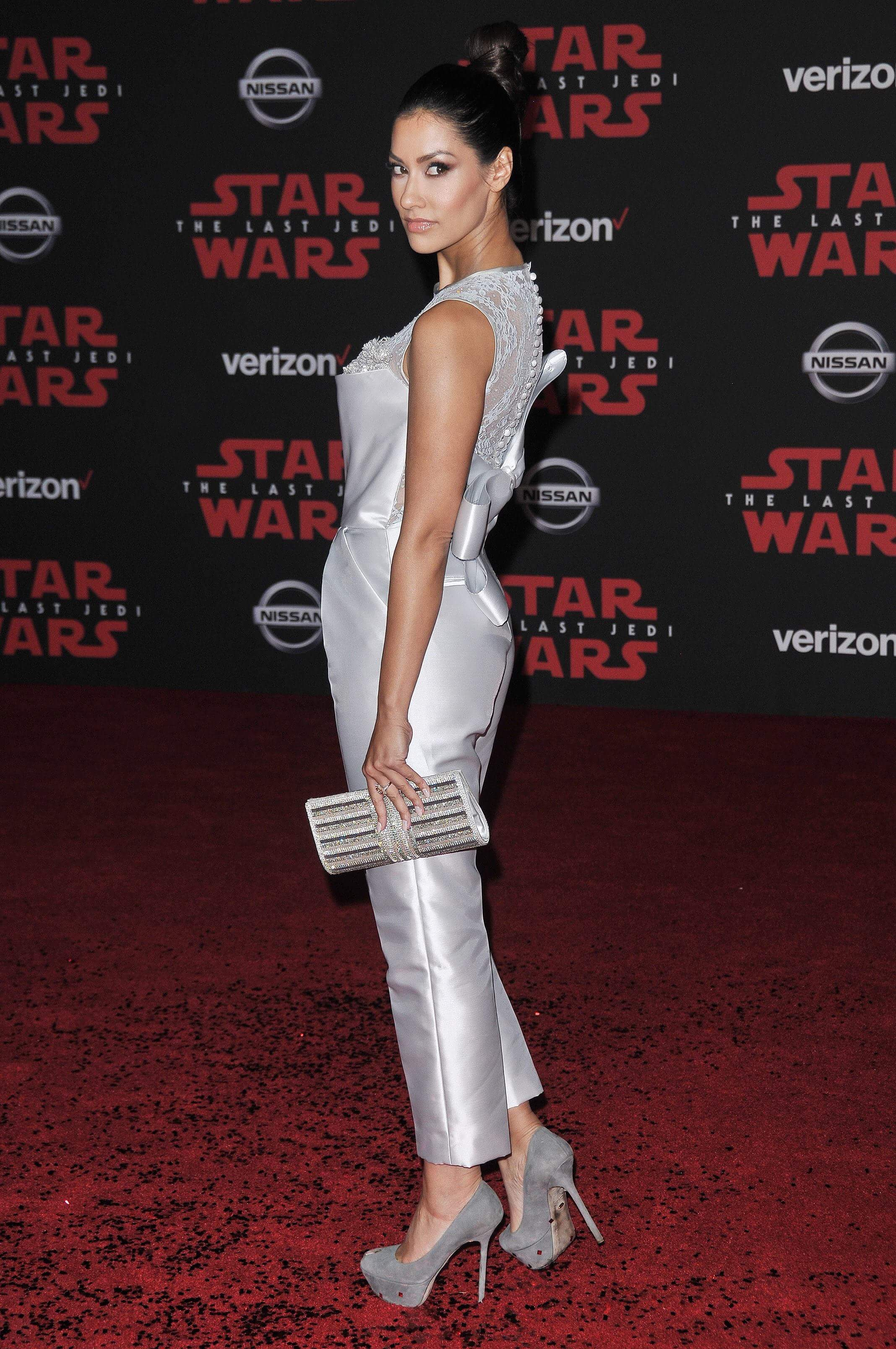 Janina Gavankar on the red carpet of the "Star Wars: The Last Jedi" world premier at the Shrine Auditorium in Los Angeles, California USA on December 9, 2017.